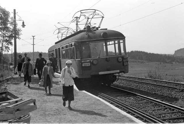 Bærumsbanen Class C1 tram at Kolsås on the Kolsås Line